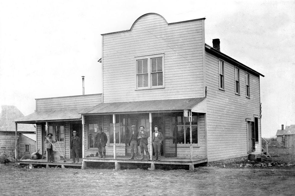 This photograph shows an exterior view of businesses in Dunavant, Kansas. The business on the left is identified as Becker Hardware Store, and the business on the right is identified as a drug store. A small sign at the top of the post on the right corner of the building appears to read "Doctor Cole," and appears to have the traditional mortar and pestle pharmacy symbol on it. Several men are visible standing in front of the businesses.